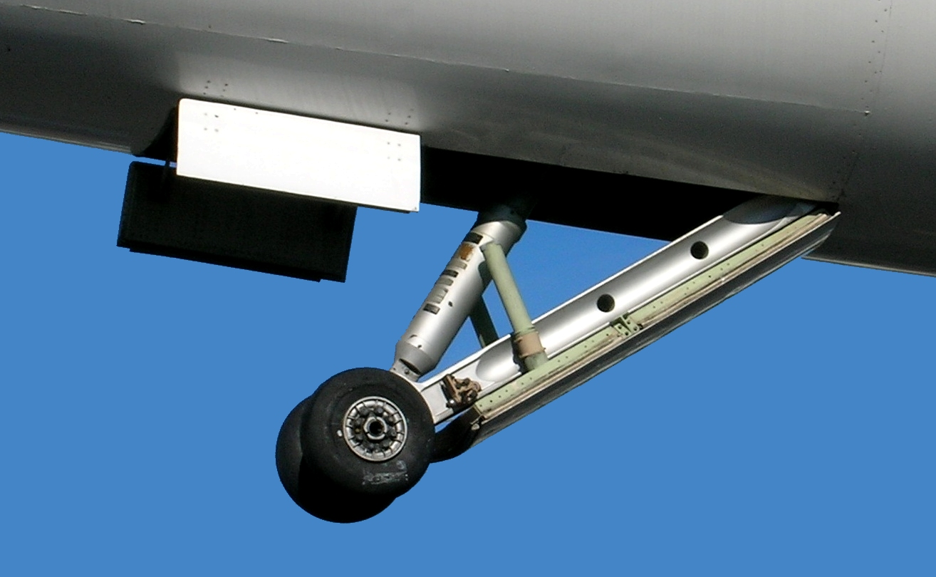 Tail bumper of Concorde G-BOAG (Museum of Flight, Seattle)